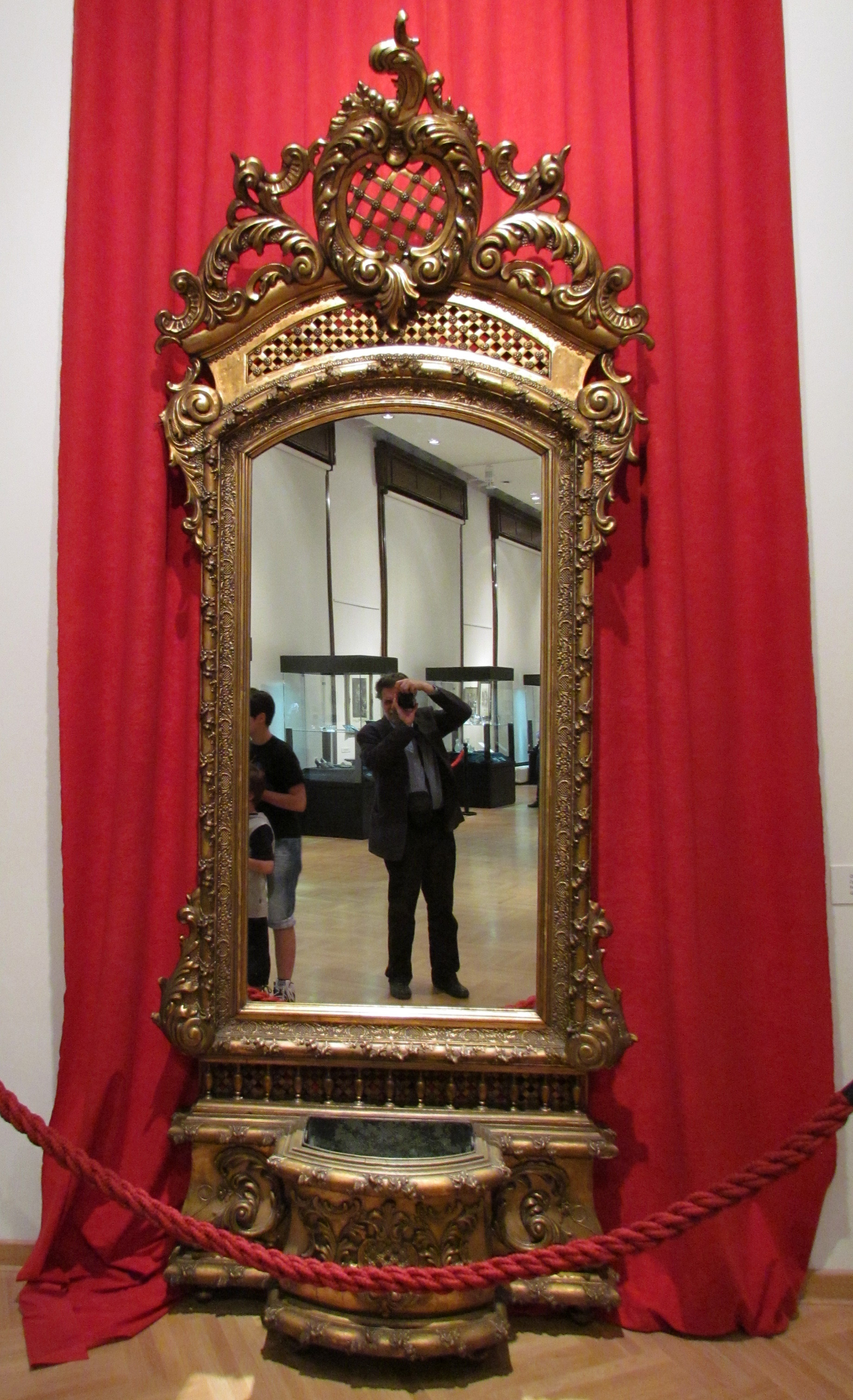 Full-length mirror from the Obrenovic's Old Court, Gustav Horton, 1895, Vienna